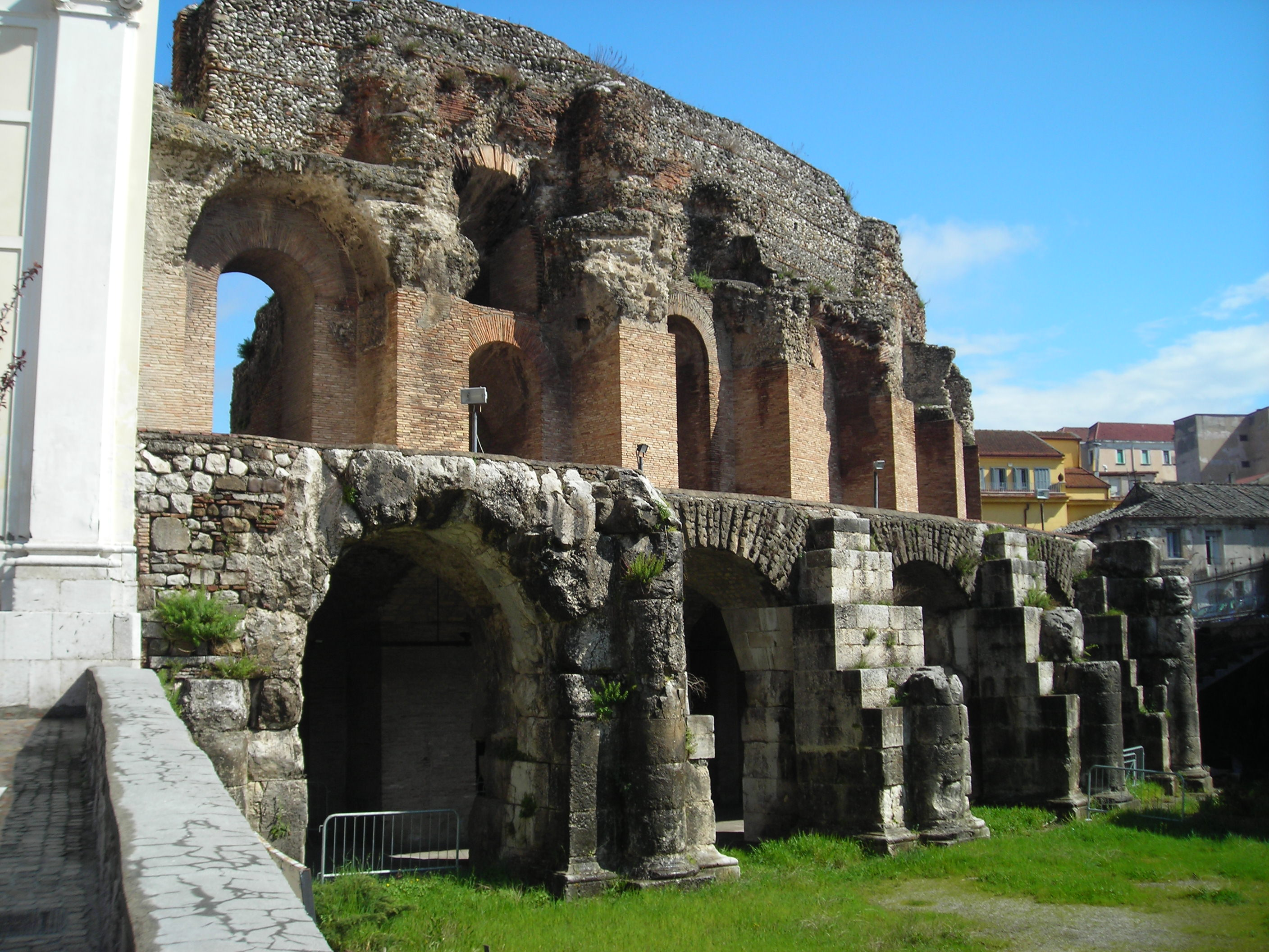 An external view of the Roman Theatre, Benevento